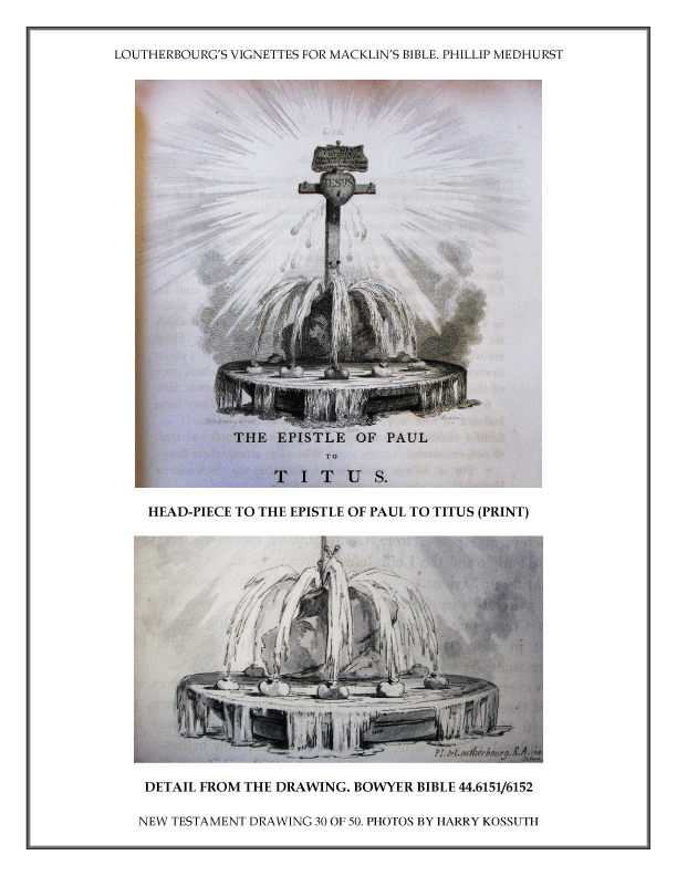 Head-piece to the epistle of Paul to Titus, vignette with a heart inscribed 'Jesus' on a crucifix standing over a fountain, in the bowl of which half emerged hearts spout water; letterpress in two columns below and on verso. 1800. Inscriptions: Lettered below image with production detail: "P J de Loutherbourg del et invt.", "J Heath dirext." and publication line: "Pubd. by T Macklin, Fleet Street, London". Print made by James Heath. Dimensions: height: 490 millimetres (sheet); width: 400 millimetres (sheet).